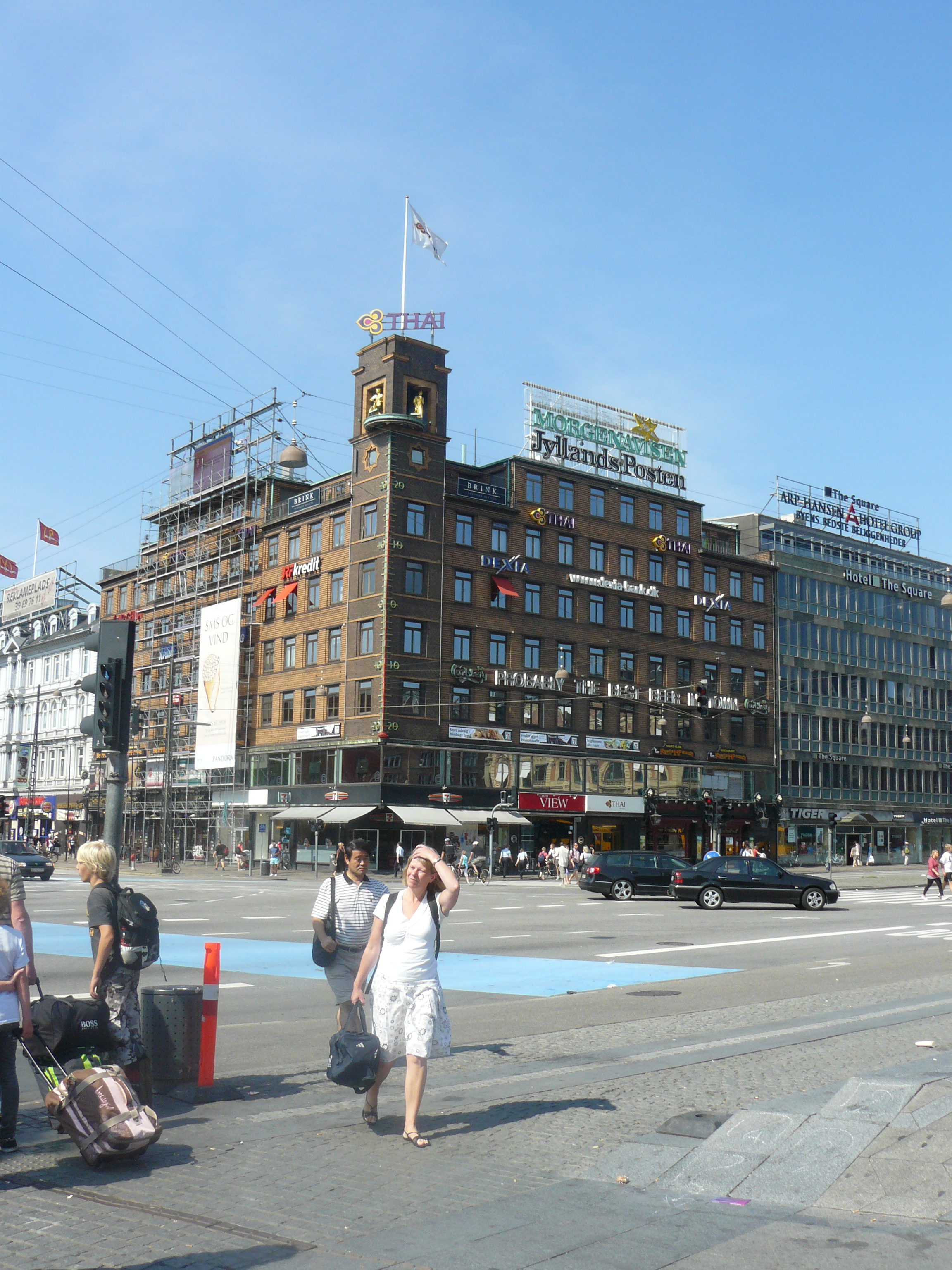 Copenhaguen - Rådhuspladsen